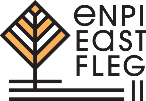 Logo of FLEG II Program